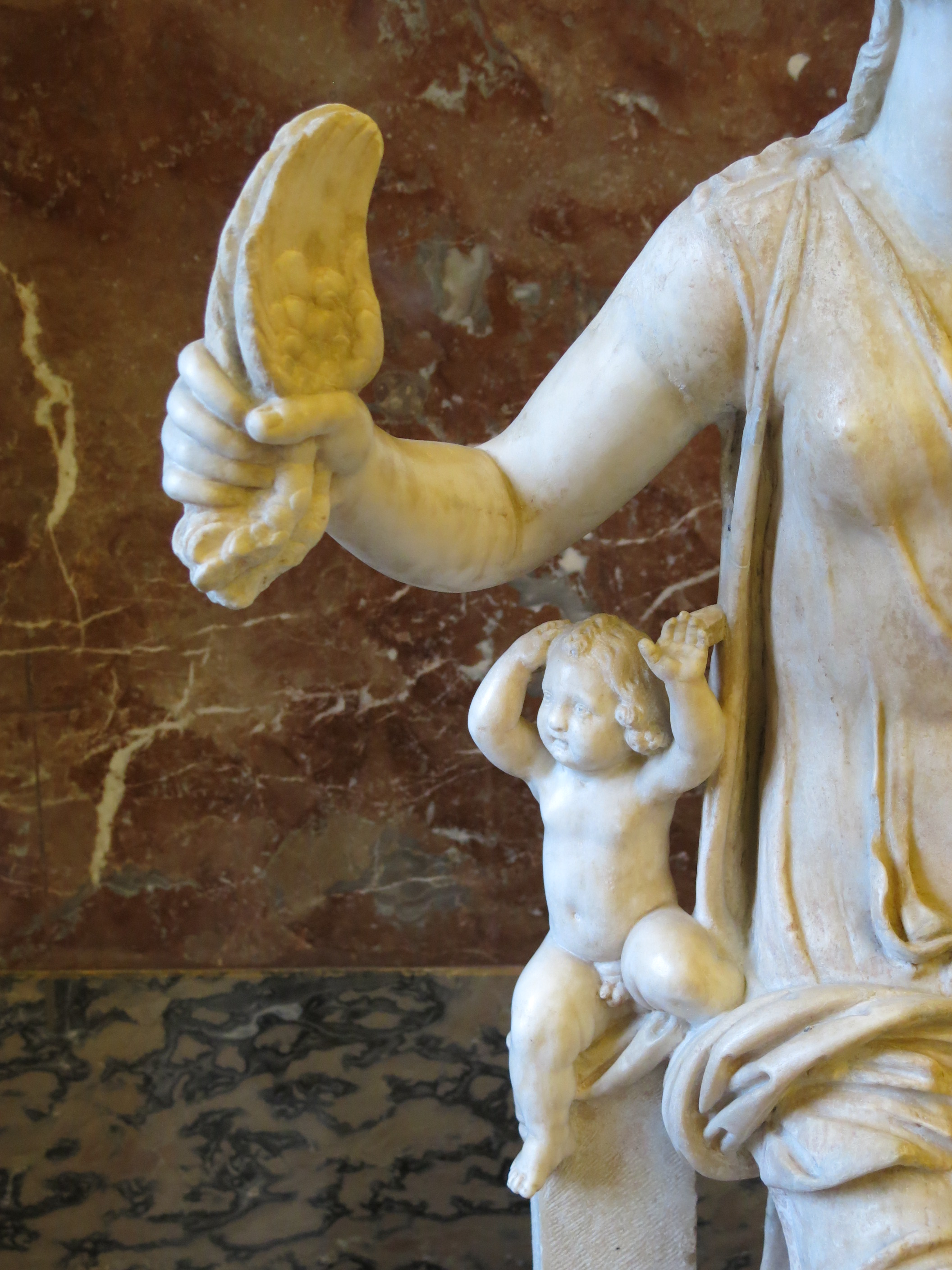 Venus in style Venus vulgaris. 160 AC. Carrara marble. Louvre museum (Paris, France).